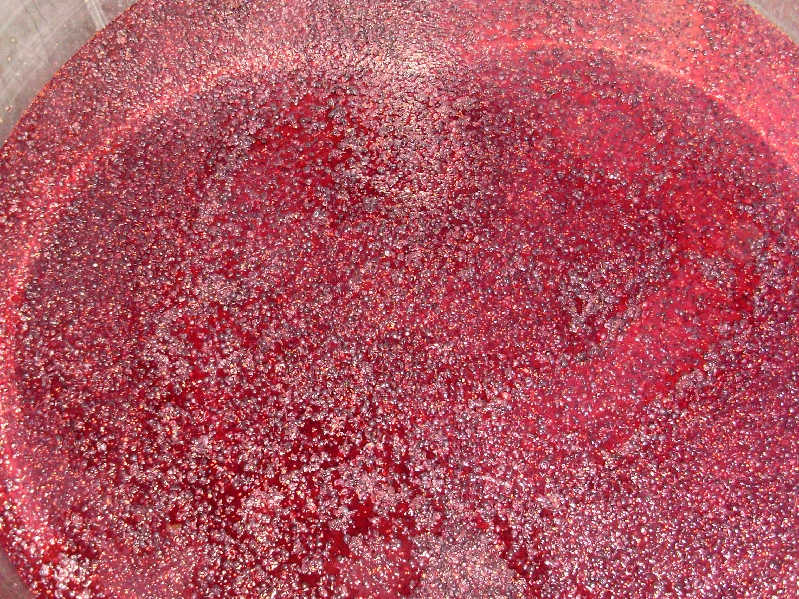 Pinot noir grapes and skins (maceration) in a vat starting the process of fermentation